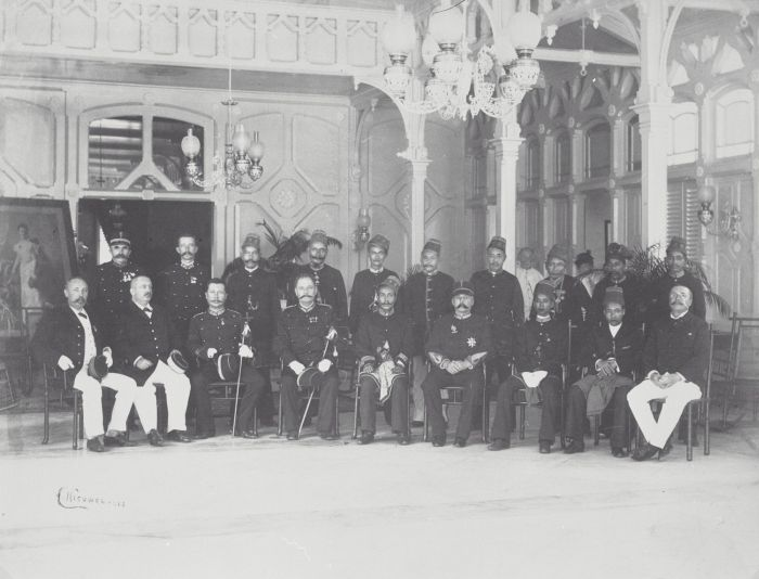 Portrait at Kutaraja after the submission of the Sultan of Aceh